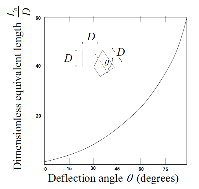 PIPE WITH SHARP ANGLE FRICTION LOSS COEF